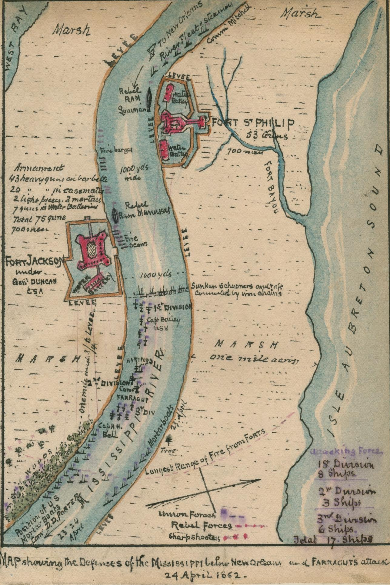 Map of forts guarding the Mississippi River in Plaquemines Parish, Louisiana, during the American Civil War. Forts Philip and Jackson, 1862. This color-coded map shows the Confederate fortifications at Fort Jackson under Gen. Duncan, Fort St. Philip and the Union fleet along the Mississippi River below New Orleans. The map, also shows the positions of Union ships under Farragut, who captured the strategic port of New Orleans, thereby providing the Federal army access to the Mississippi River